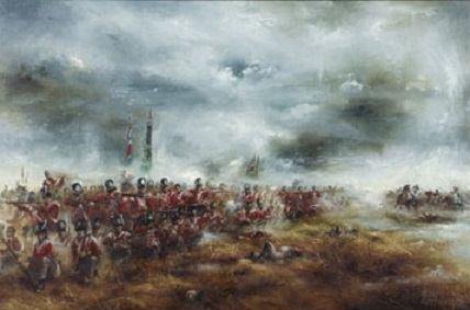 2nd Battalion, 73rd and the 2nd Battalion, 30th Regiments of Foot at the Battle of Waterloo